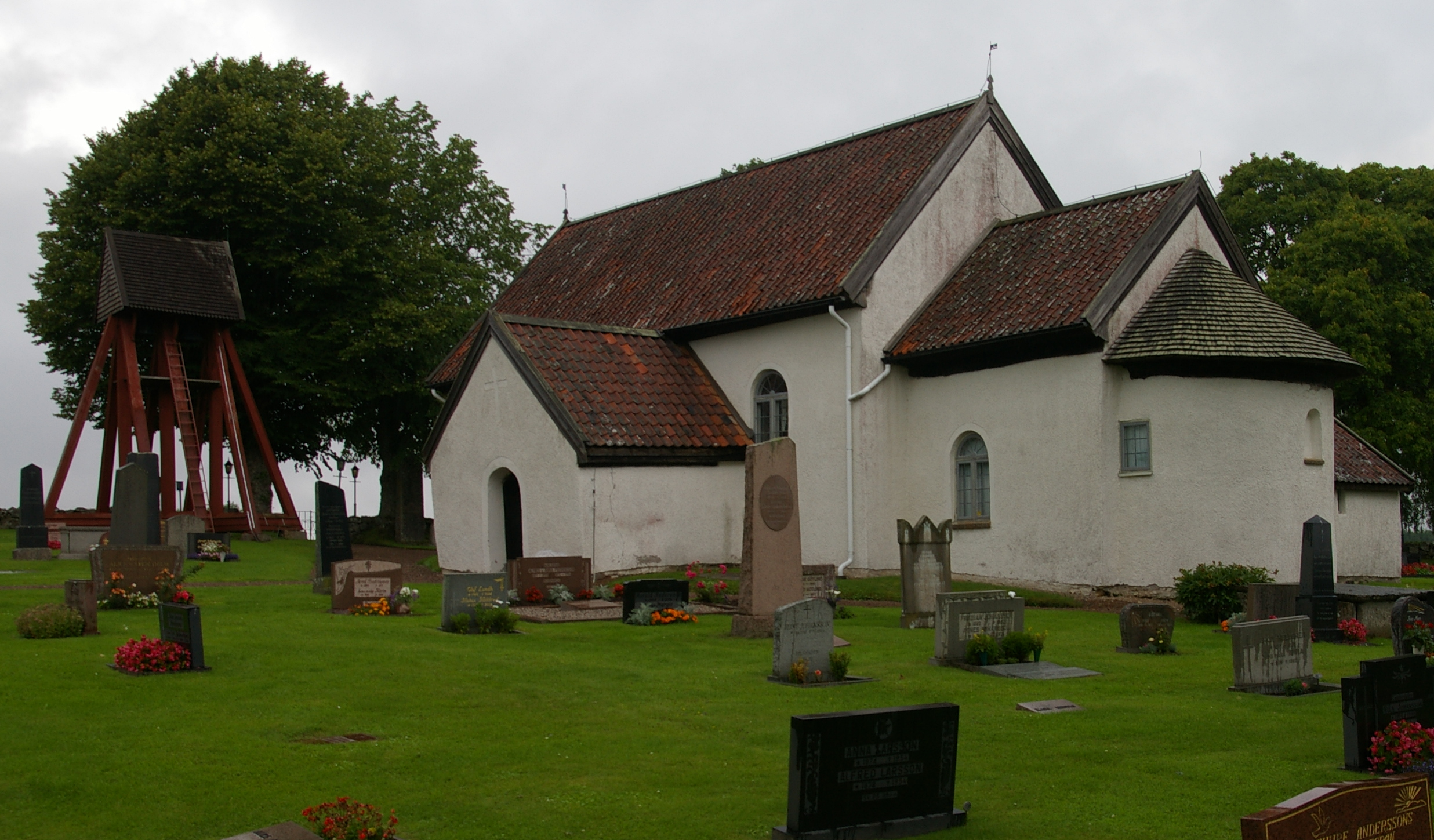 Göteve kyrka (Swedish:Church of Göteve) in Västergötland, Sweden.